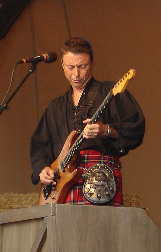 Randy Holbrook, Off Kilter, Epcot